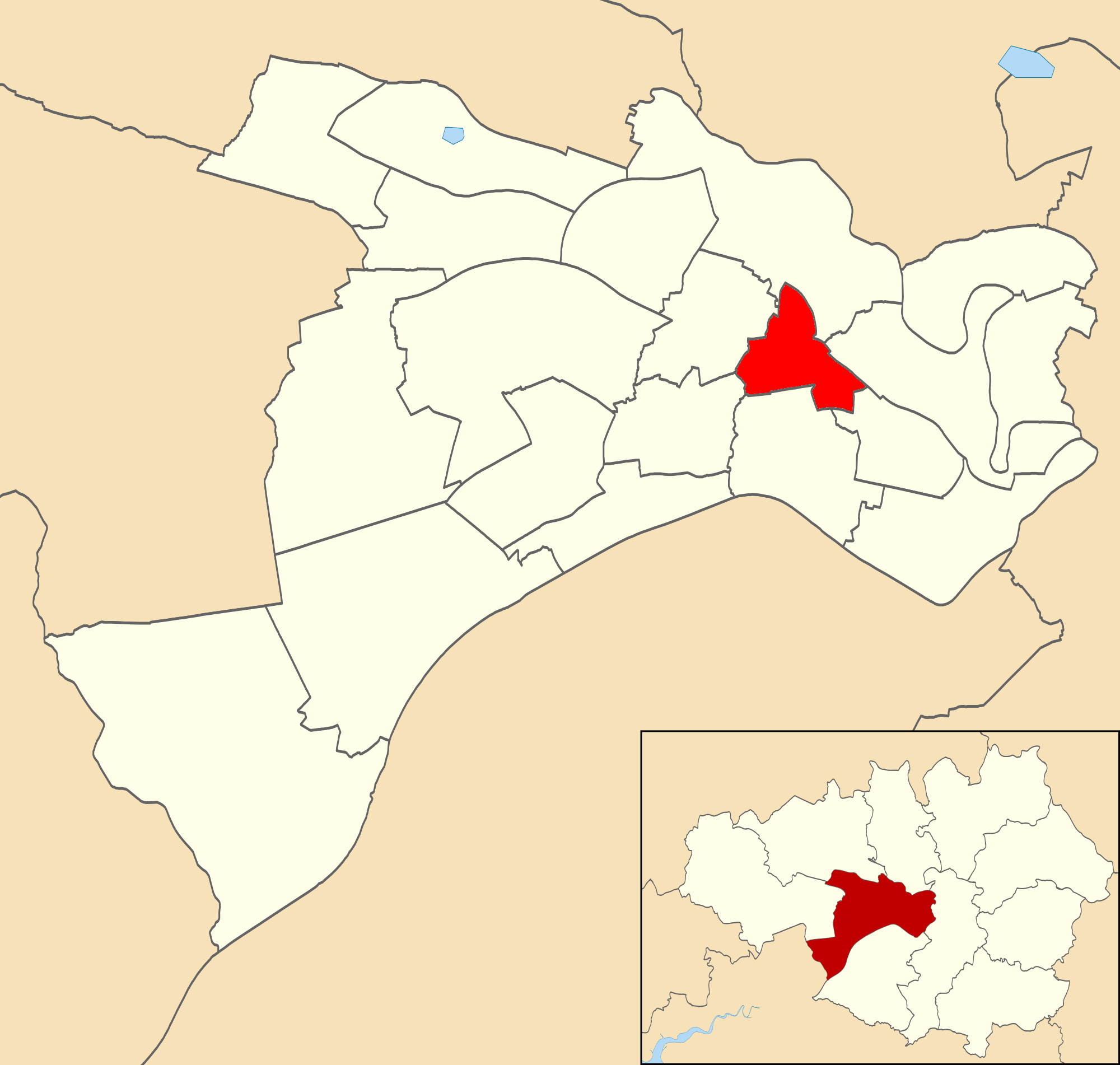 Map showing location of Claremont ward within Salford City Council.